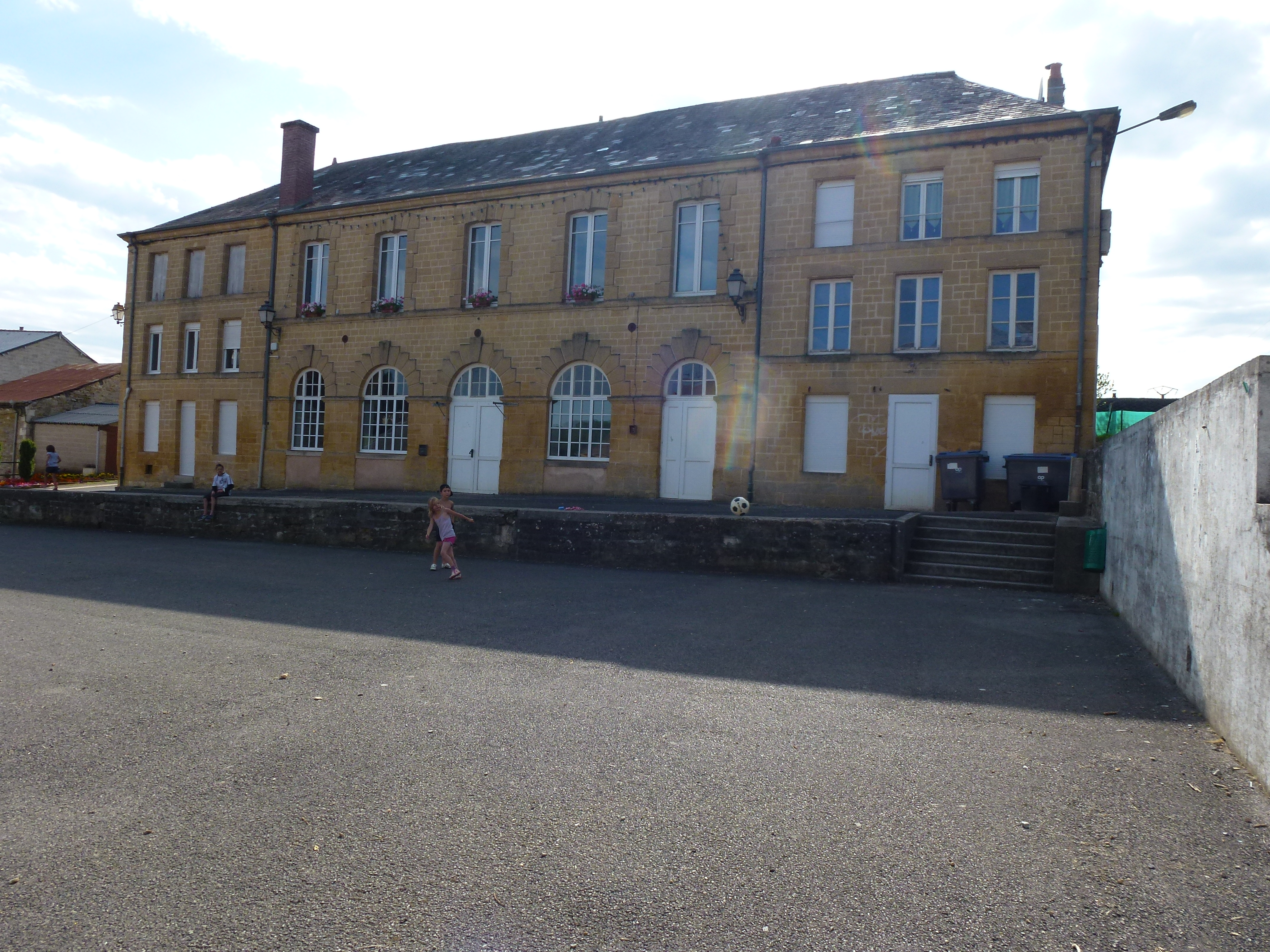 Aubigny-les-Pothées (Ardennes) école